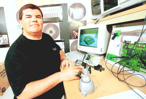 Philippe Kahn and an early Camera Phone development system